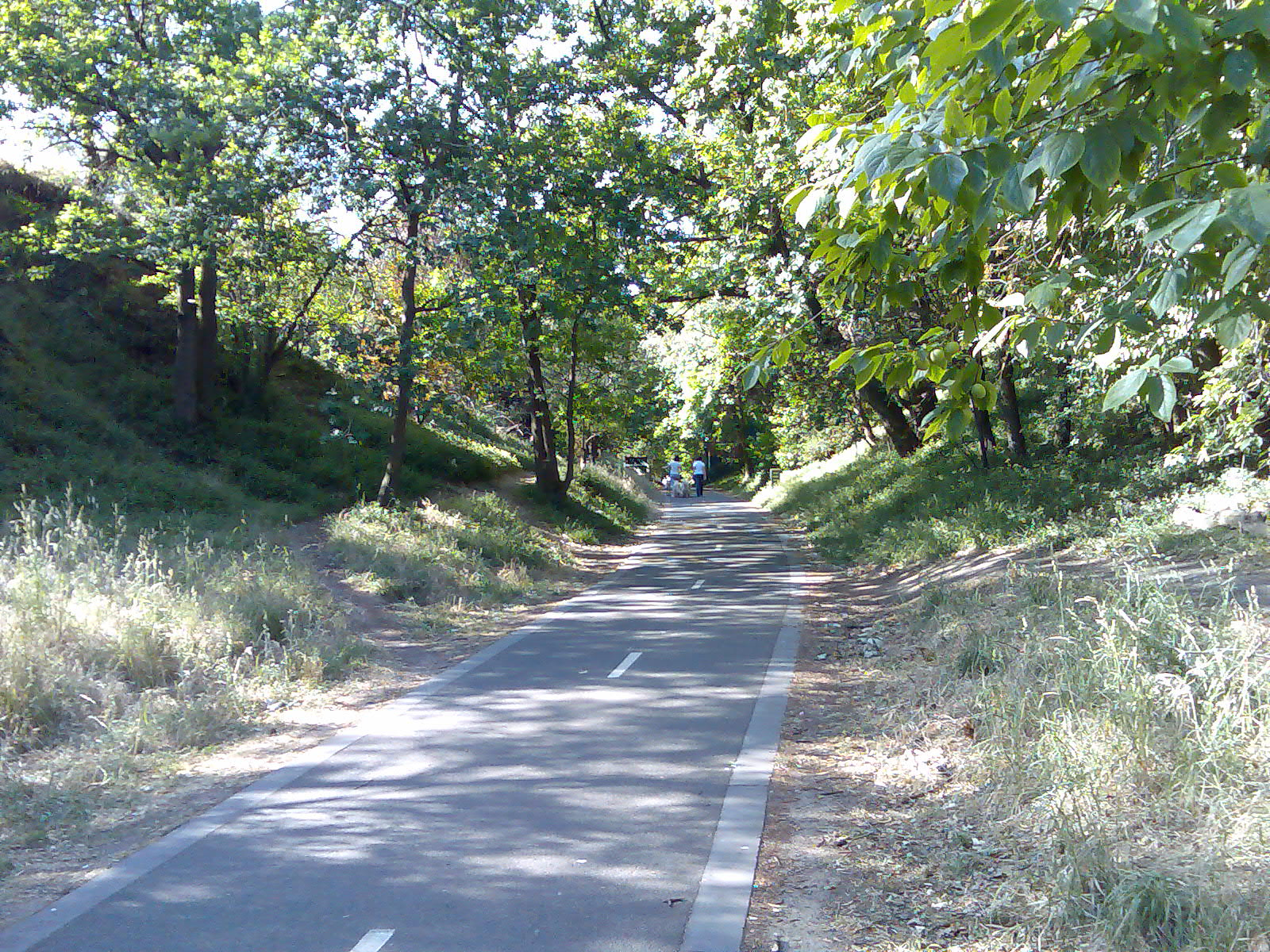 Outer Circle Trail, path section between Mont Albert and Canterbury Roads